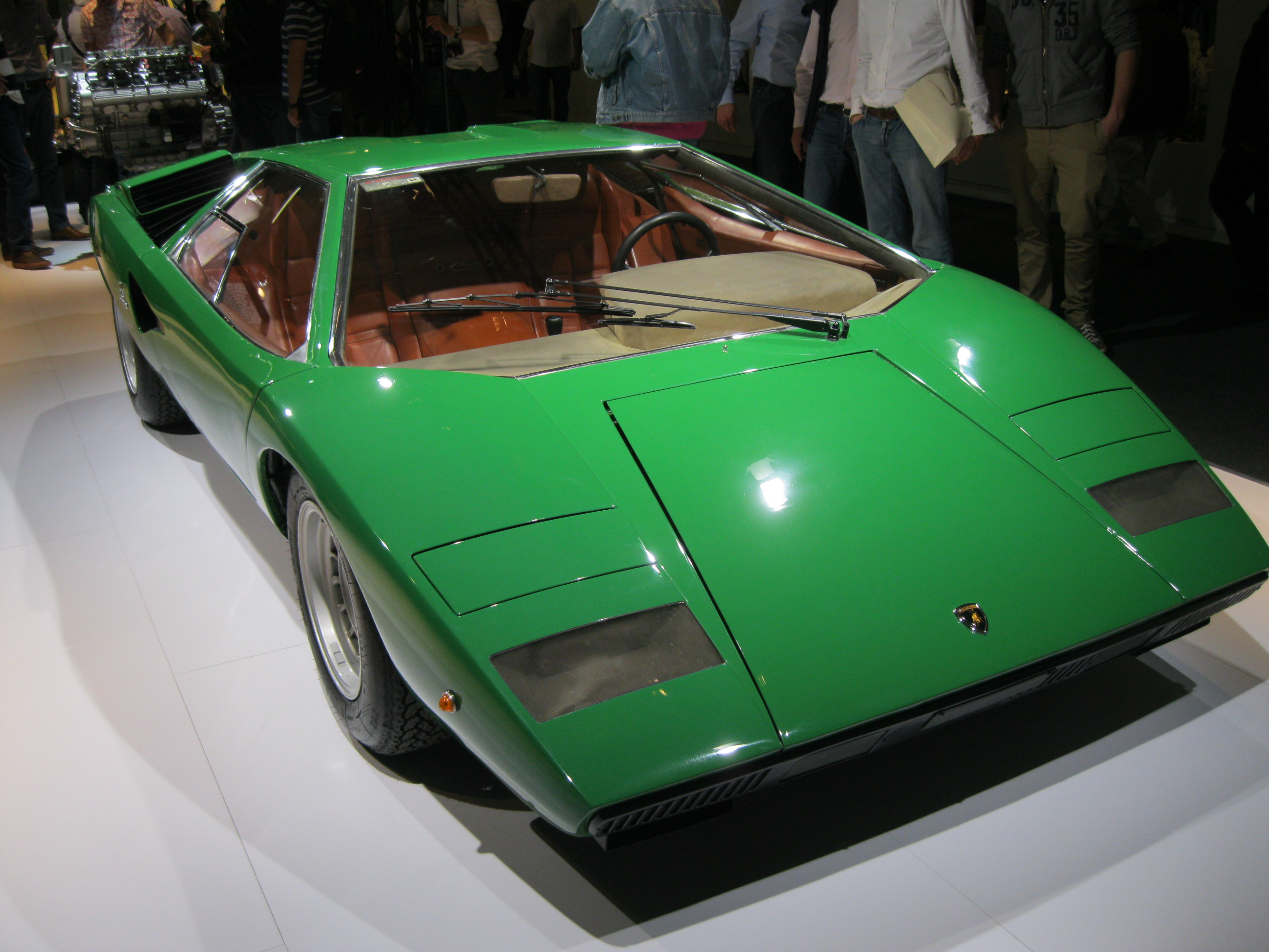 Early Countach (2nd prototype, chassis 1120001), spotted at Techno Classica Essen in 2012.